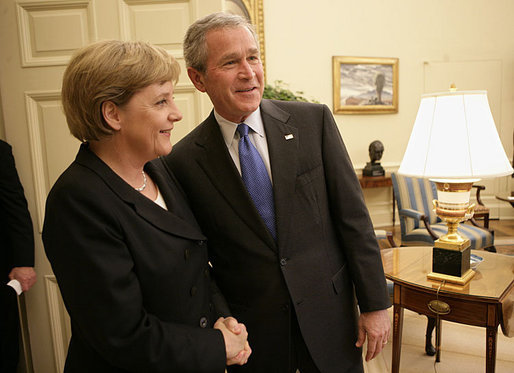 President George W. Bush welcomes German Chancellor Angela Merkel to the Oval Office at the White House, Wednesday, May 3, 2006.